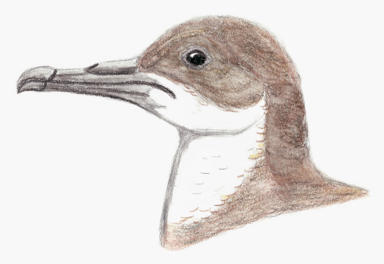 Life restoration of the dune shearwater (Puffinus holeae), a seabird that lived in the northeastern Atlantic Ocean until historical times.